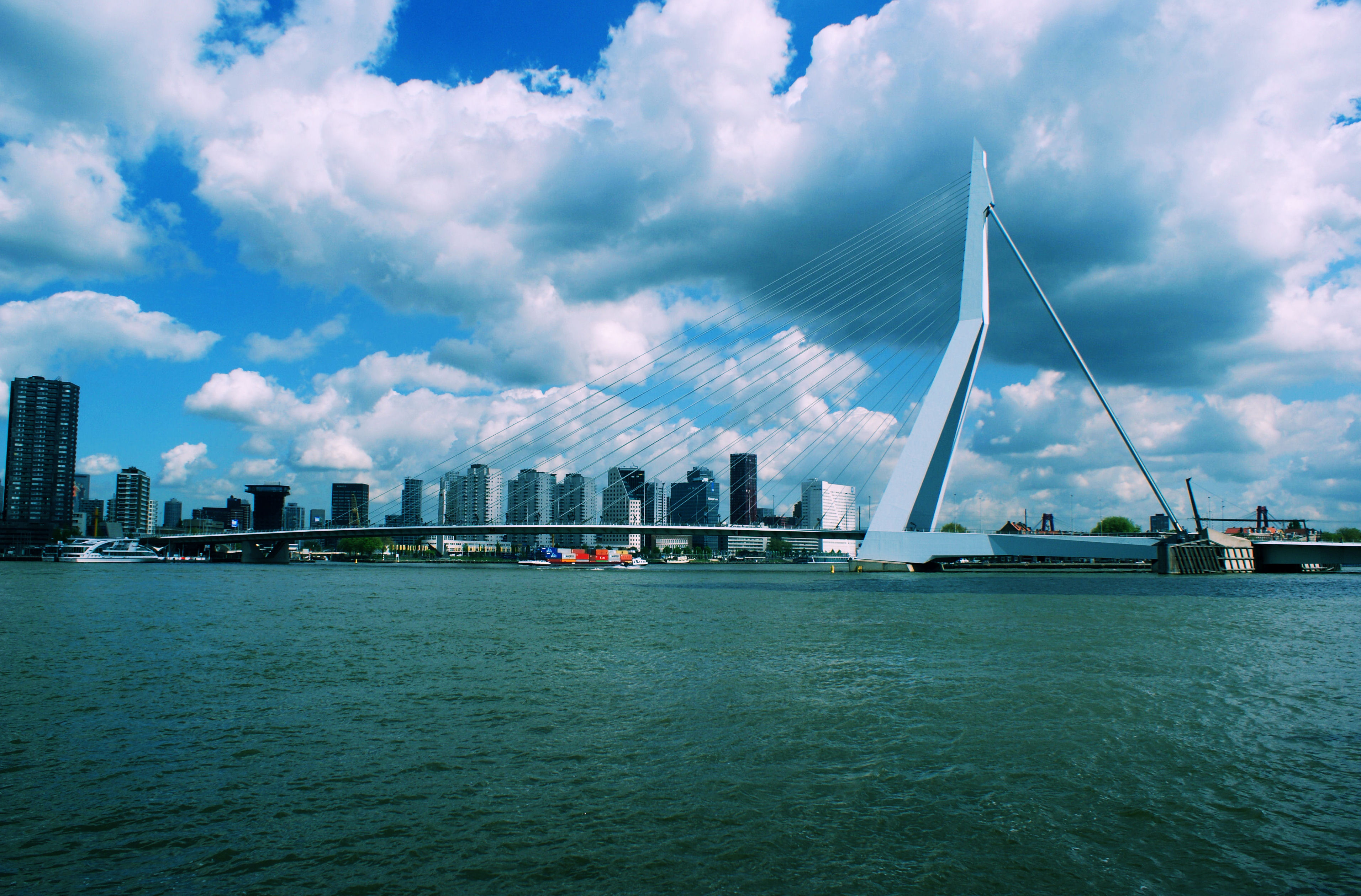 The Erasmus Bridge, Rotterdam